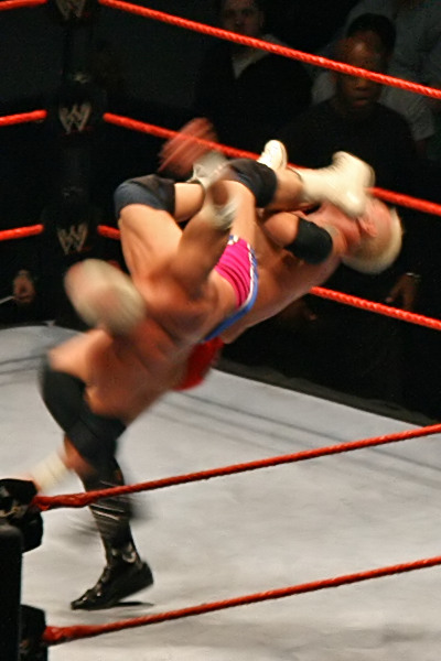 Bob 'Hardcore' Holly (Robert Howard) performs a Standing Dropkick on Mr Kennedy. Taken during the WWE Raw - Survivor Series Tour, at Rod Laver Arena, Melbourne Park, Melbourne, Australia. Holly wrestled Mr Kennedy on the night; the match was won by Kennedy pinning Holly with a roll-up.